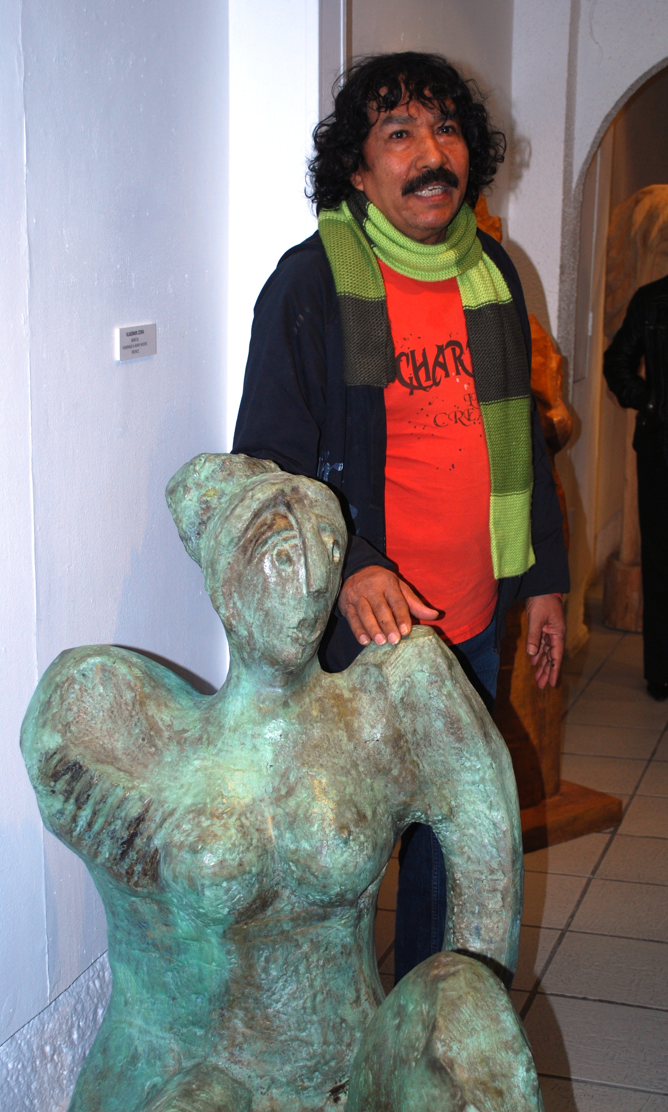 Vladimir Cora and sculpture at the Reminiscencias event at the Salón de la Plástica Mexicana in Mexico City